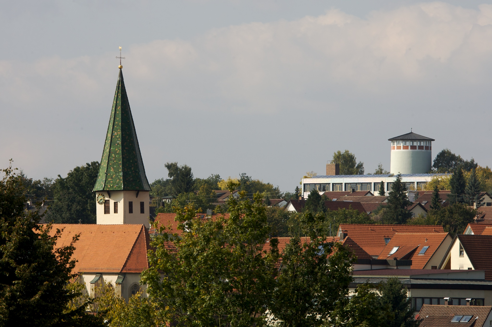 Kusterdingen. Church and Water tower.